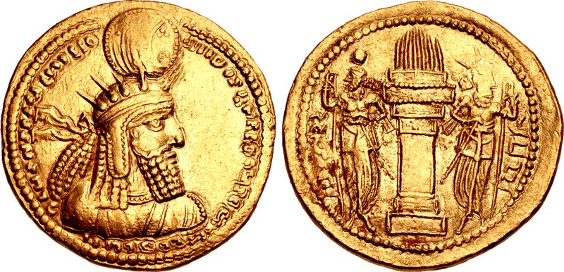 Coin of Bahram I, Hamadan mint.